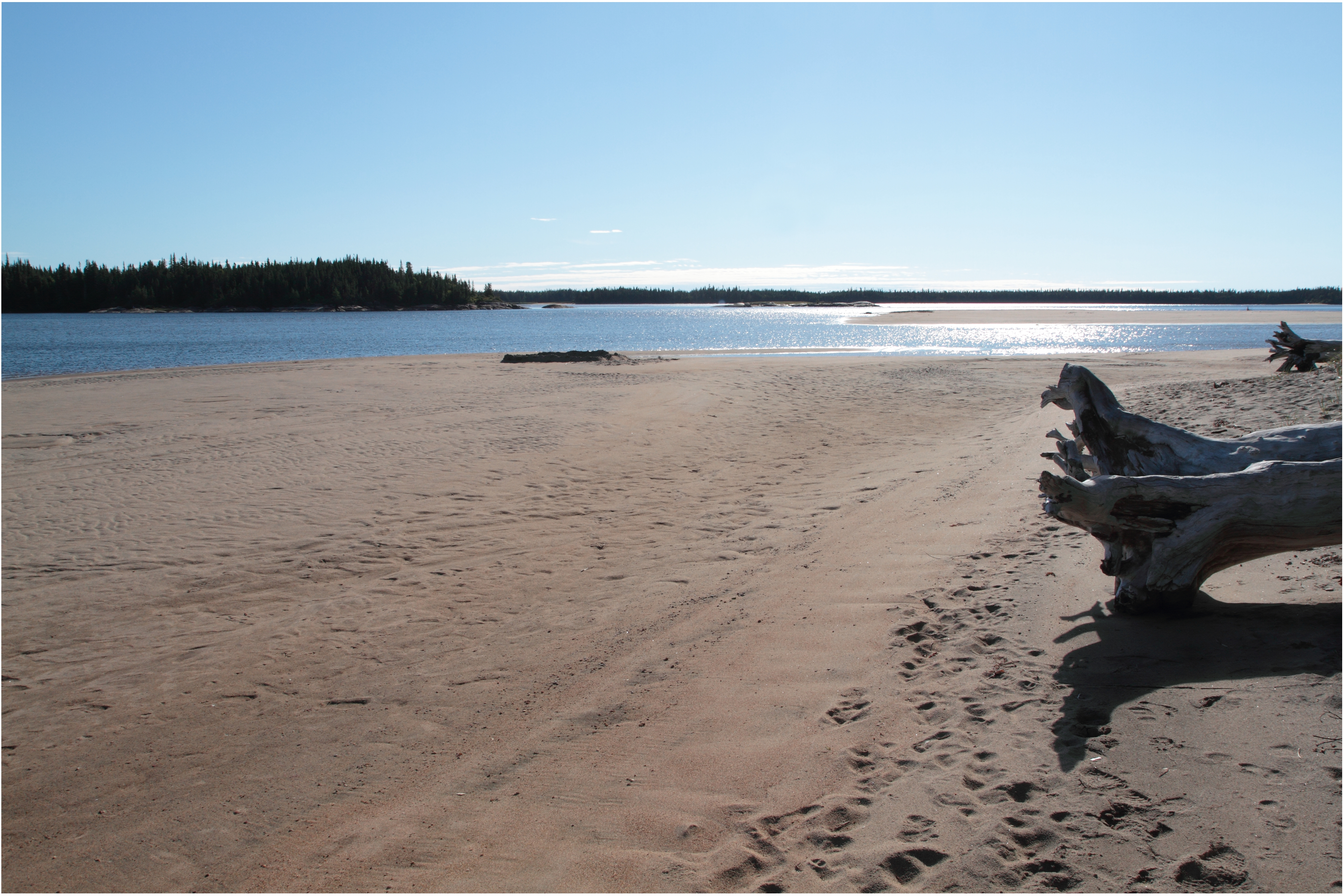 Beach on Mingan river not far from Longue-Pointe-de-Mingan, Quebec, Canada